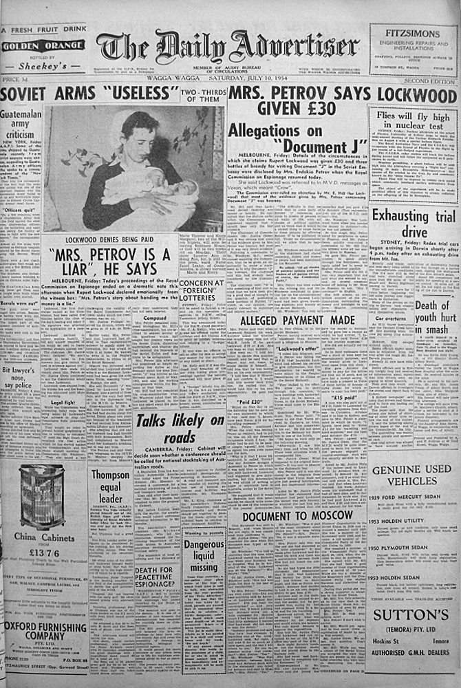 The front page of the second edition of The Daily Advertiser published on 10 July 1954.